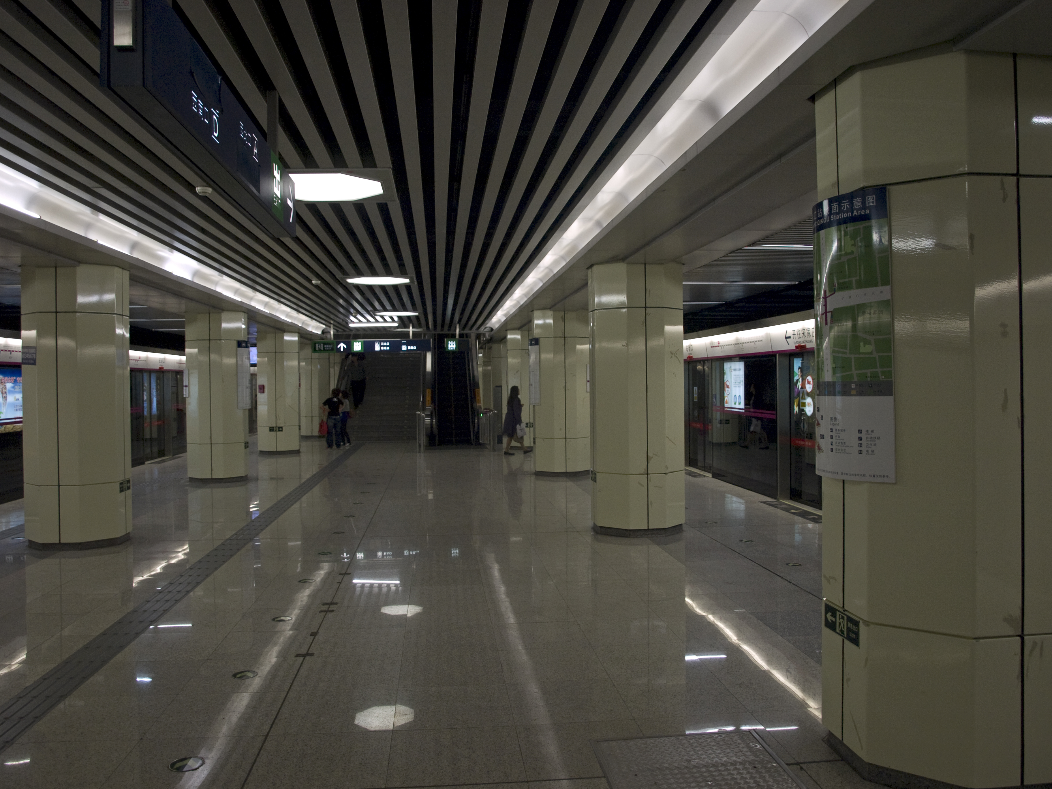 Ciqikou station, Beijing Subway